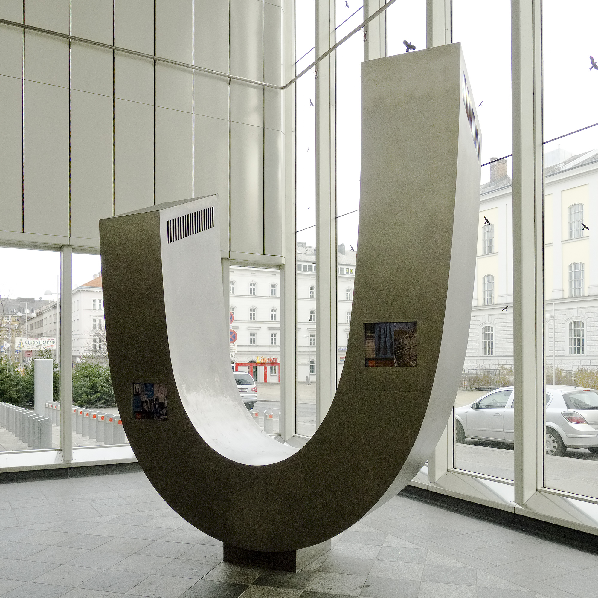 Underground station Bahnhof Wien Ottakring in Vienna 16